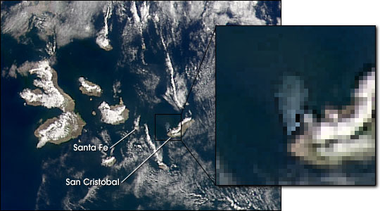 oil spill from the Jessica tanker Shipwreck, january 2001